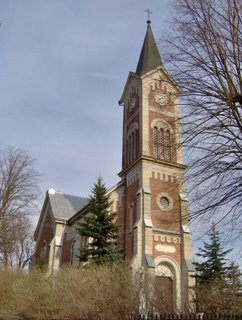 Roman catholic church of Plášťovce, Slovakia